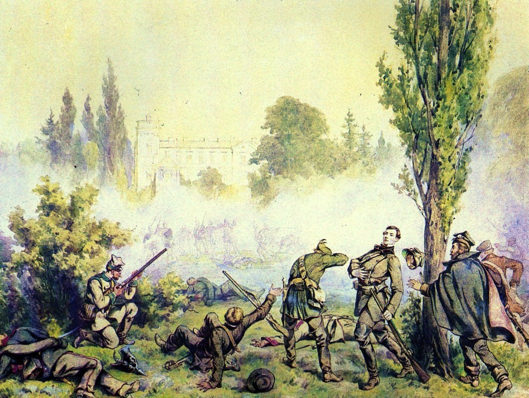 The battle of Miloslaw in 1848, watercolour 50 x 65 cm